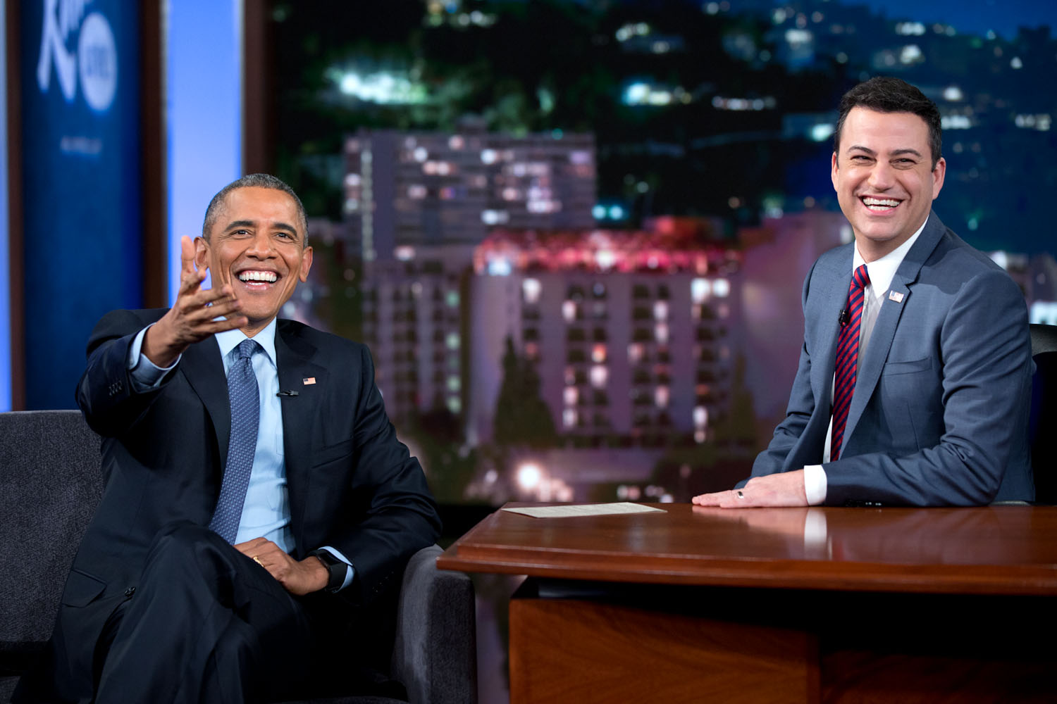 President Barack Obama talks with Jimmy Kimmel during a Jimmy Kimmel Live! video taping in Los Angeles, California, March 12, 2015. (Official White House Photo by Pete Souza)